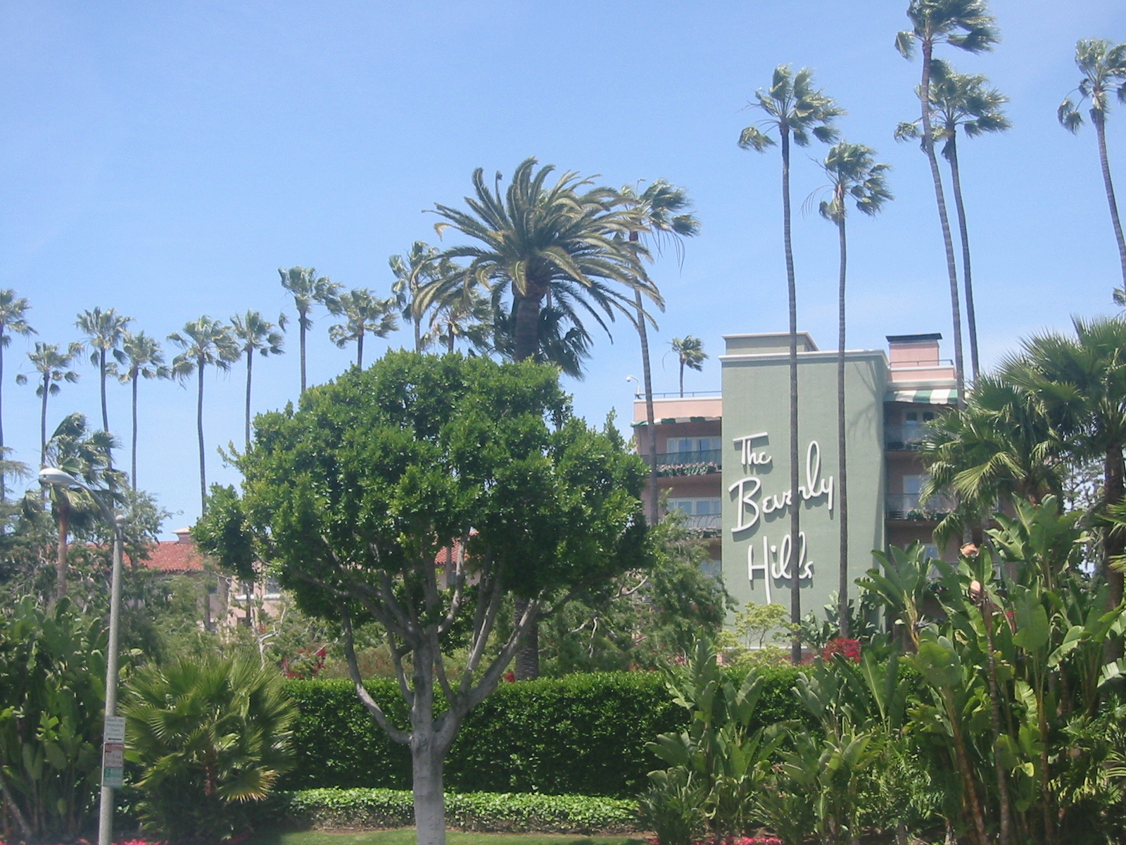 Beverly Hills Hotel, on Sunset Blvd. in Beverly Hills, California. Wing on right designed by Paul R. Williams (c. 1950s).